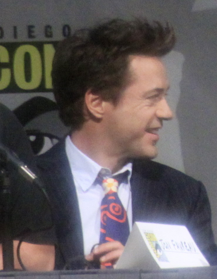 Robert Downey, Jr. promoting the film Iron Man 2 at the 2009 San Deigo Comic-Con International.